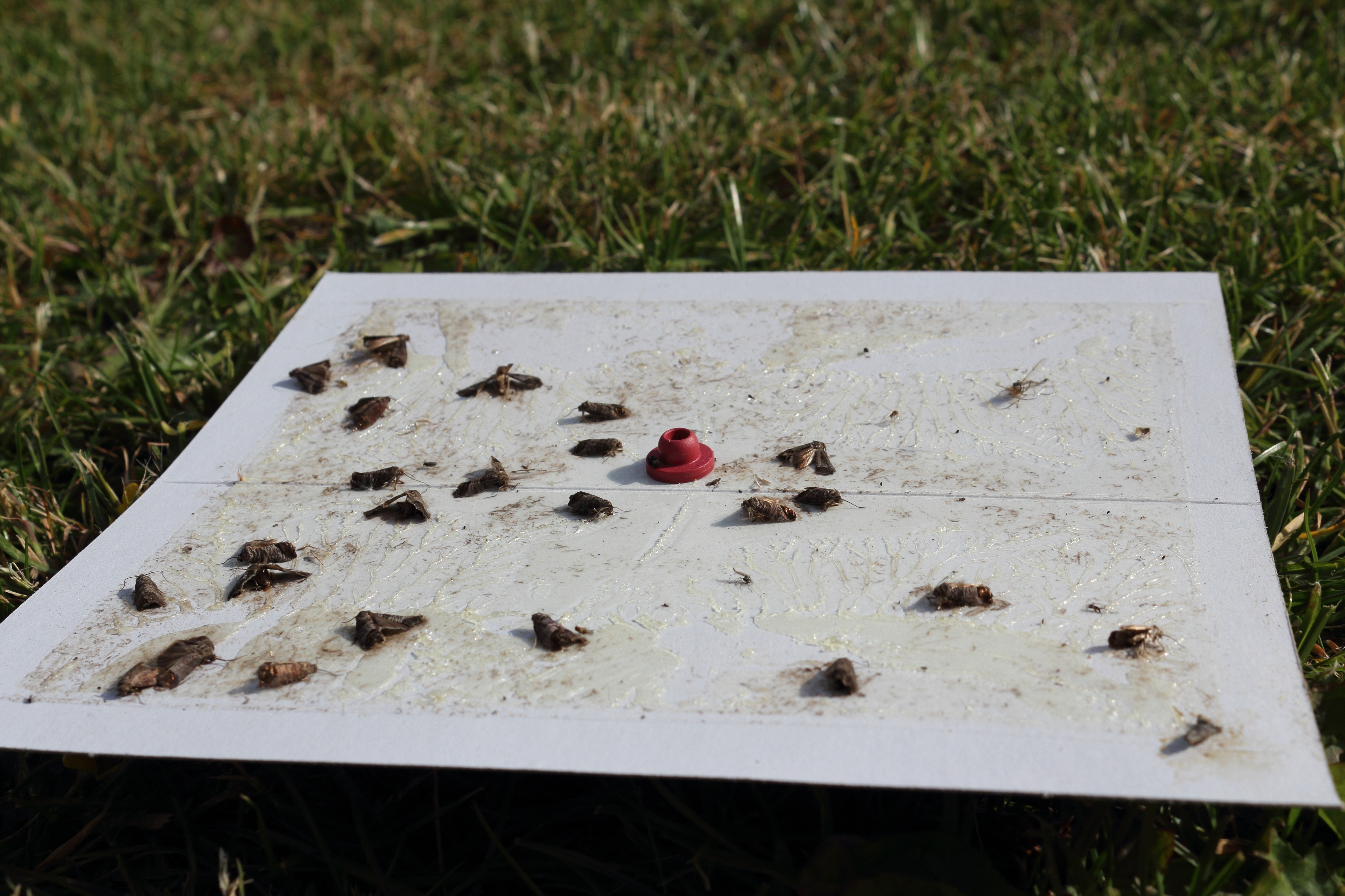 Pheromone trap for codling moth (Cydia pomonella). The pheromone (codlemone) is embedded in a red capsule placed in the middle of a cardboard plate covered with an adhesive. Male specimens of the coddling moth are attracted and eventually get stuck on the adhesive. The plate here was collected after two weeks where the plate was installed in a protective housing hanging in a pear tree in my garden close to Viborg, Denmark.